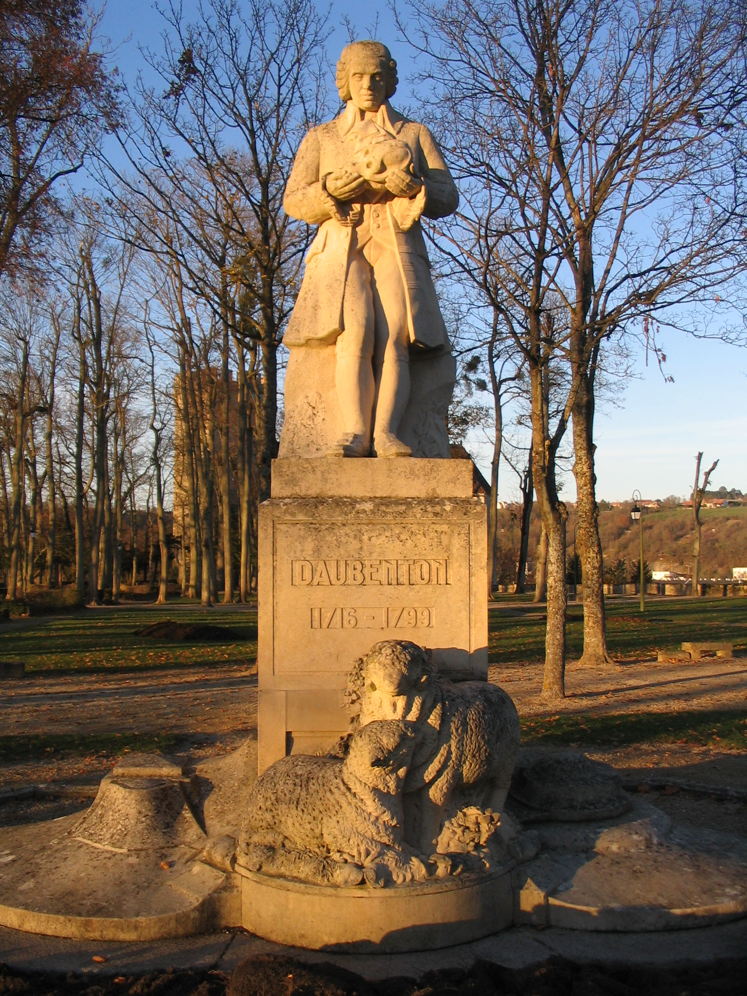 A statue of Daubenton in the Buffon Park, Montbard, Côte-d'Or, France.